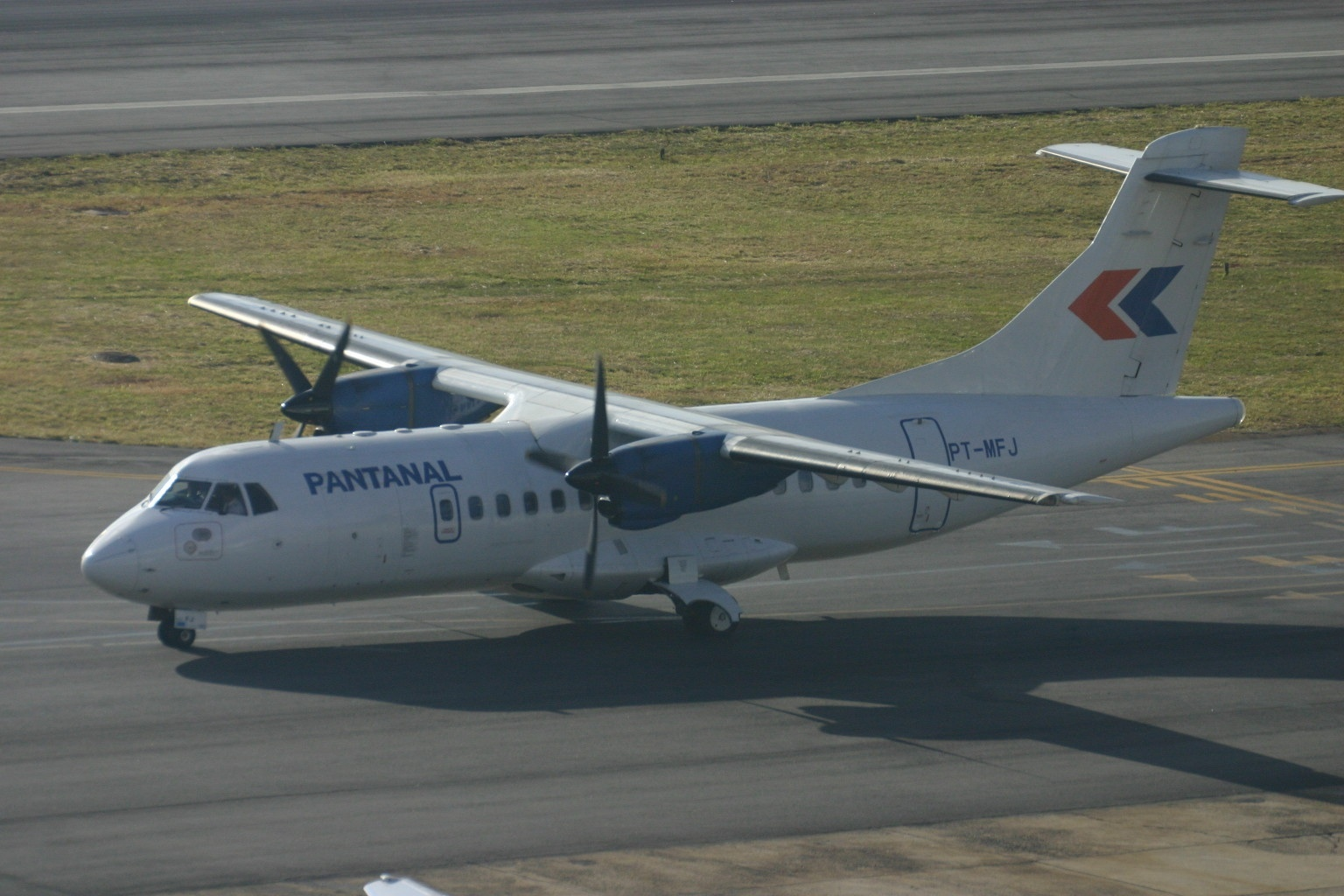 At Sao Paulo Congonhas